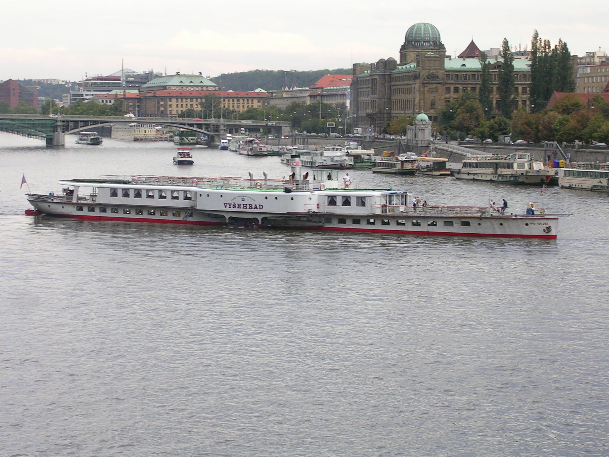 Prague, the Czech Republic. Vyšehrad Steamship at Vltava River between Čech's Bridge and Štefánik's Bridge.